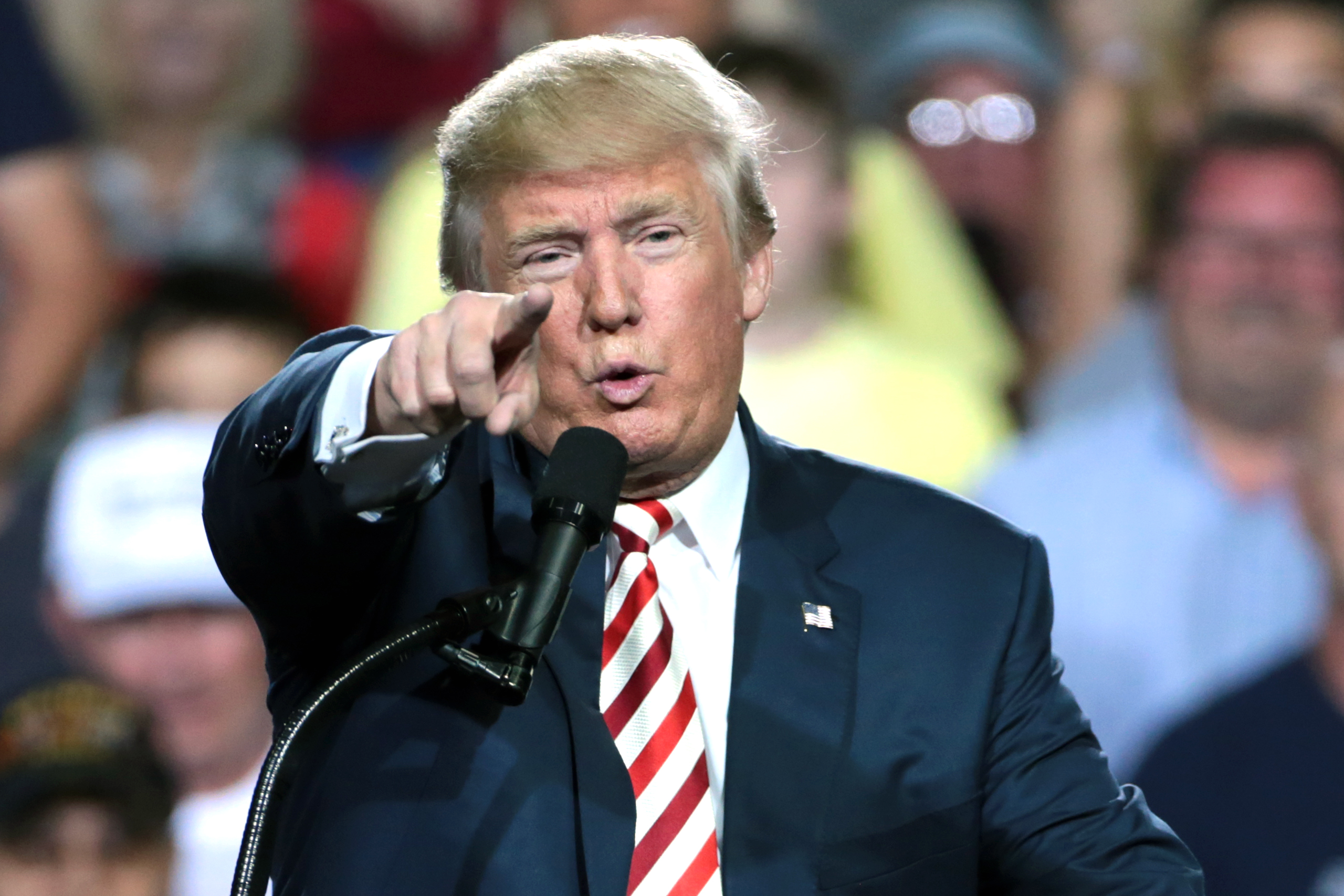 Donald Trump speaking with supporters at a campaign rally at the Prescott Valley Event Center in Prescott Valley, Arizona.